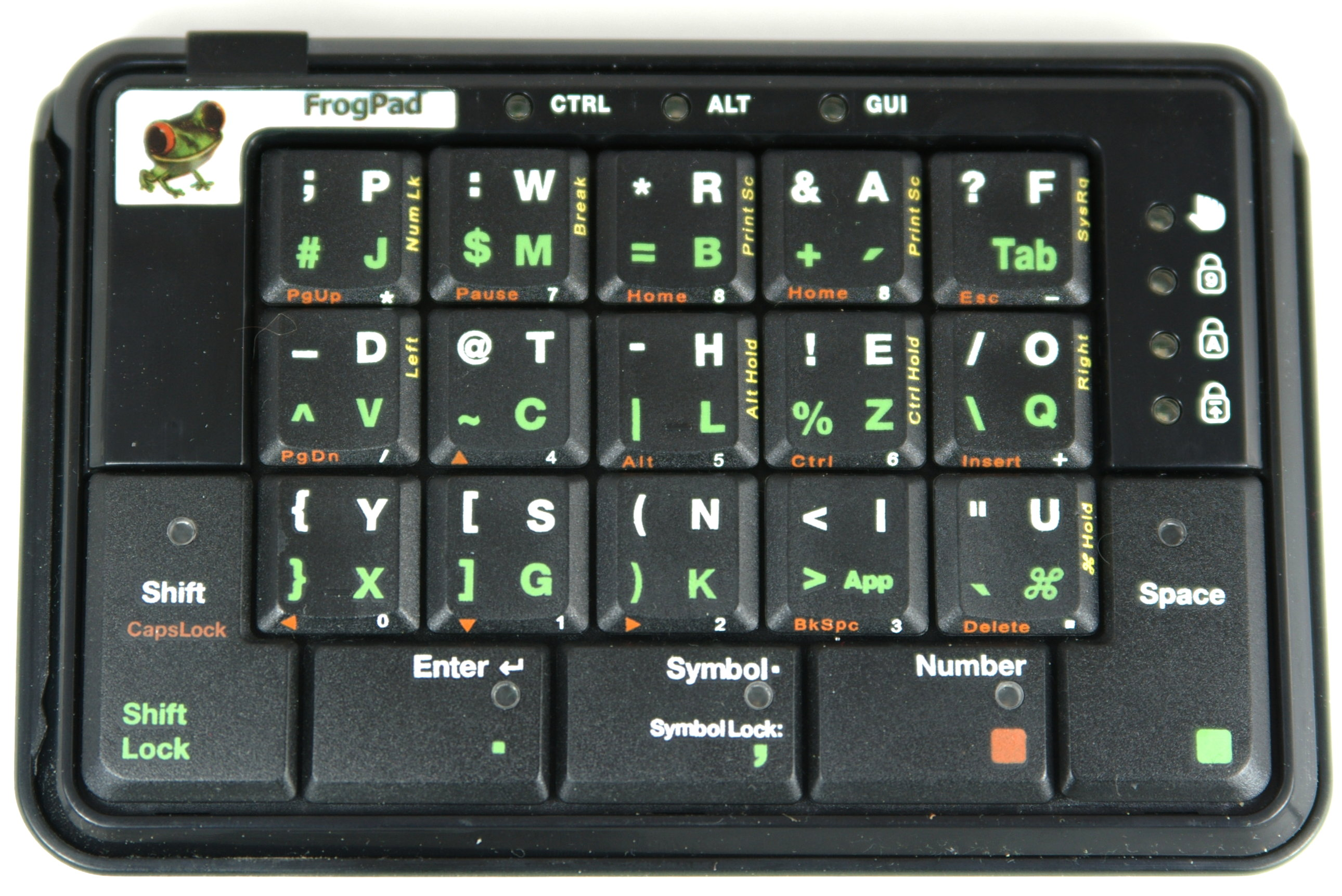 A Frogpad Keyboard. There is an error in the labels of this keyboard, with the A and R keys having the same labels at the bottom. The A key should have "9 END" on the bottom.